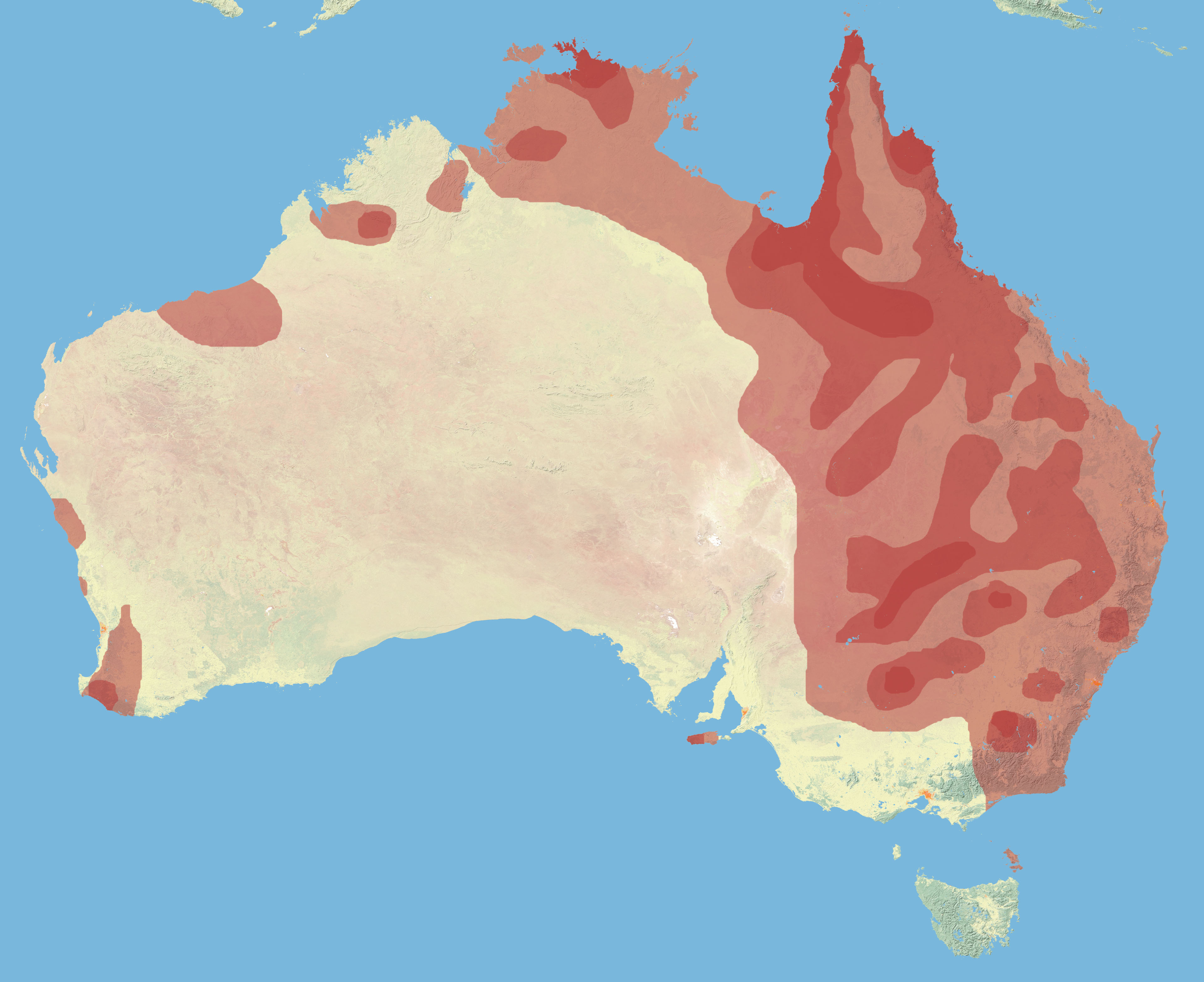 The Distribution of the Ferel Pig in Australia According to the Department of Conservation